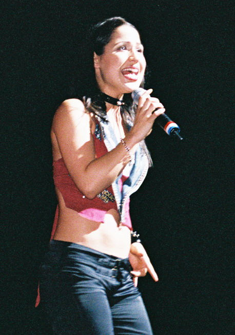 Singer Jennifer Peña in concert in Houston, TX